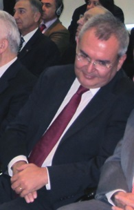 Güven Sak